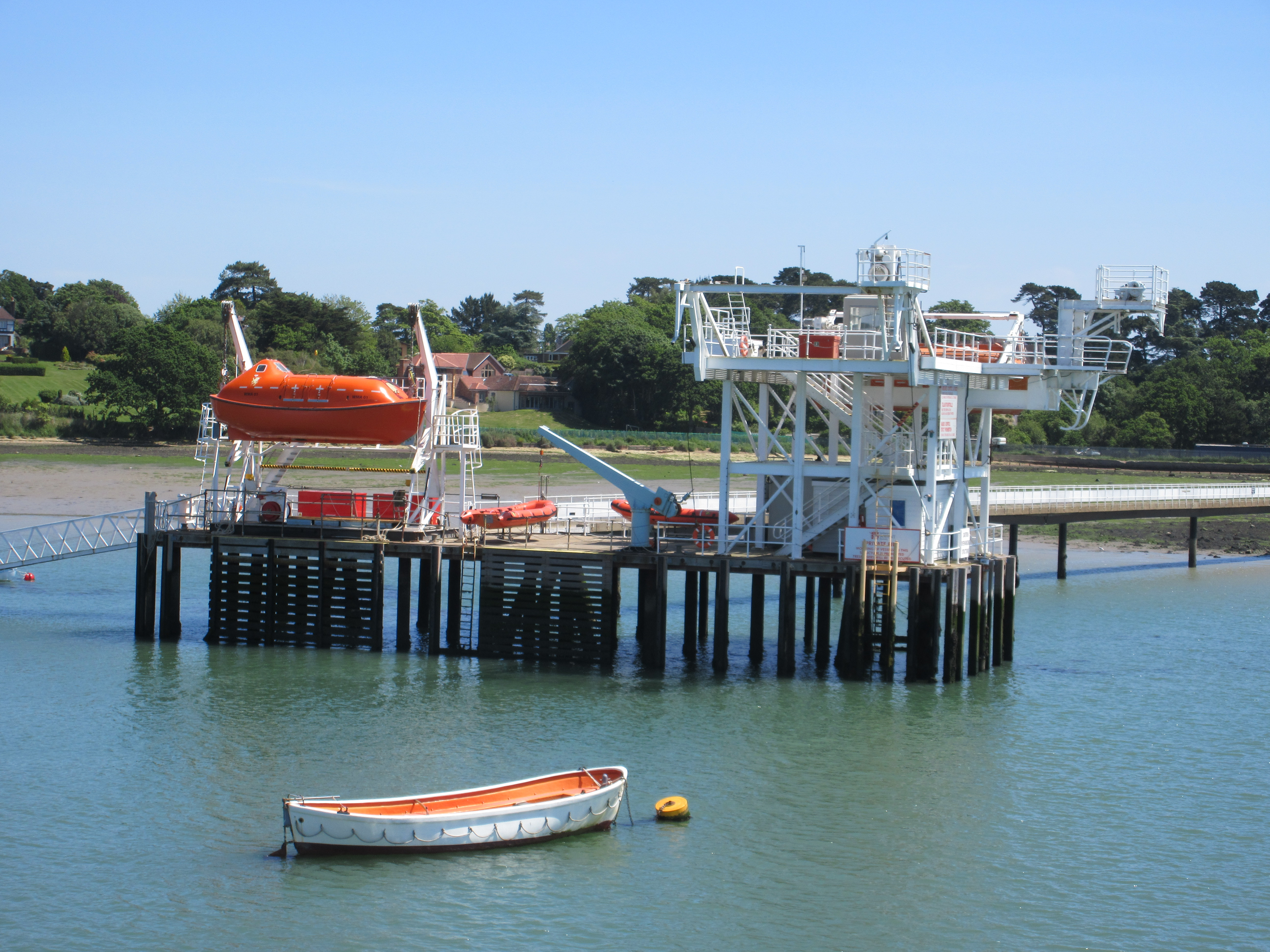 Warsash Maritime Academy Survival Craft Facility used for lifeboat training etc.